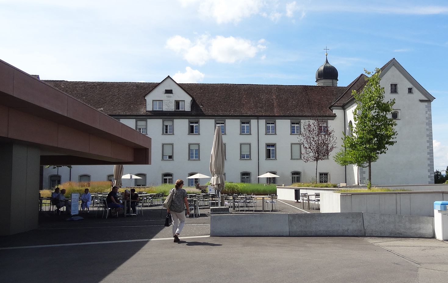 Saint Remigius church and Cantonal Hospital of the canton of Thurgau, Münsterlingen, Switzerland